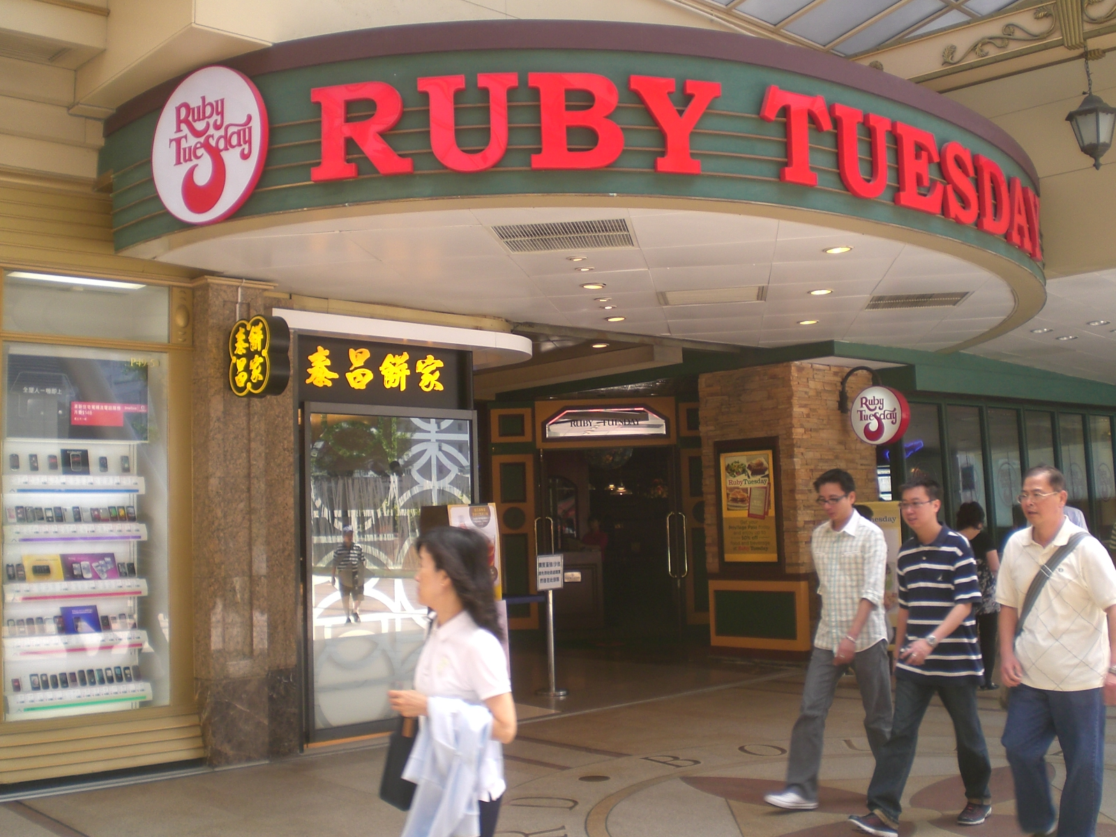 九龍灣 泰昌餅家 @ 德福廣場